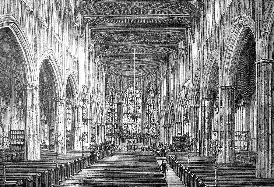 Coventry-cathedral in 1891